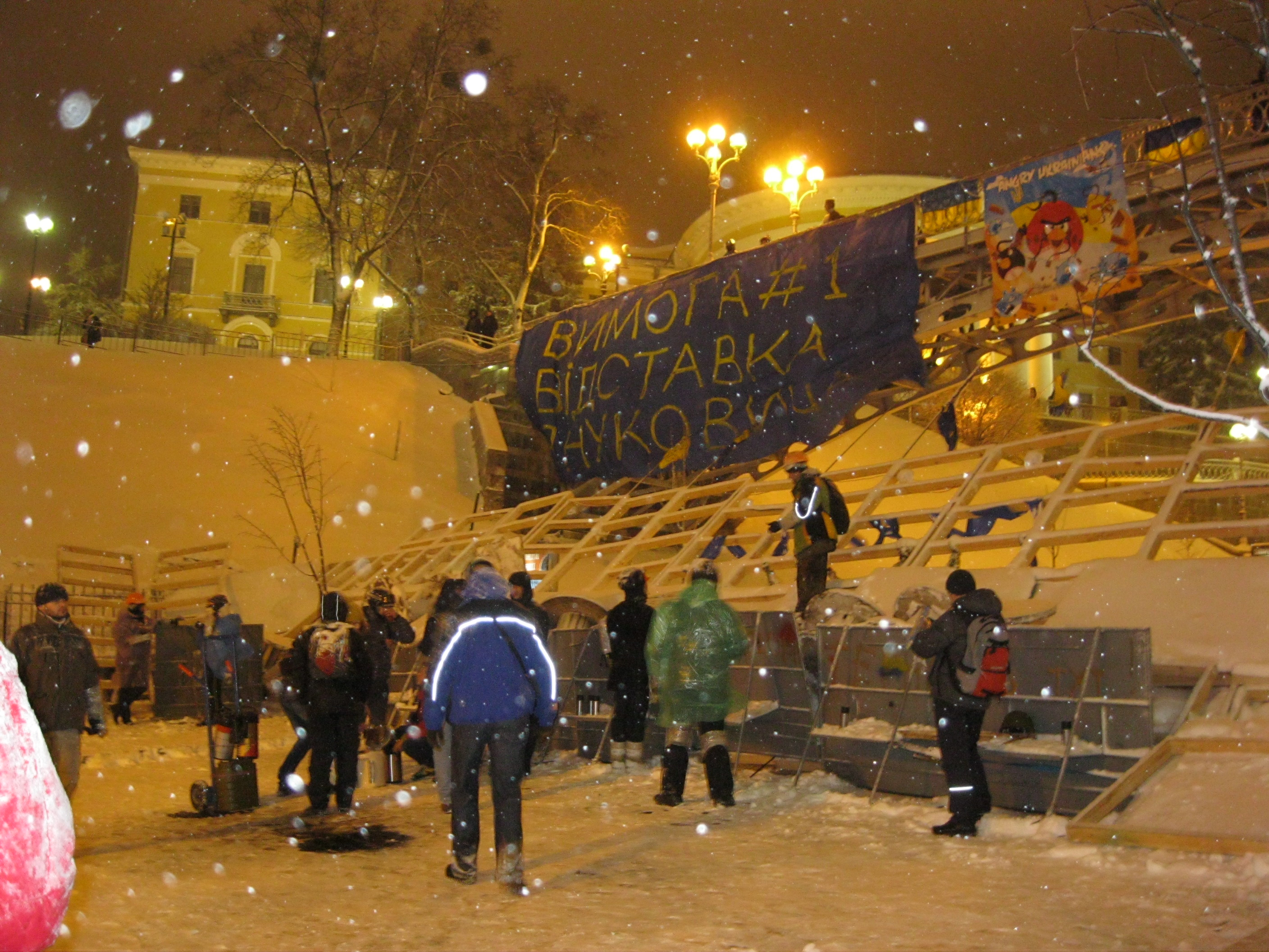 Euromaidan near 18:30 EEST